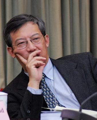 陈兼（1952-） 出生地：上海